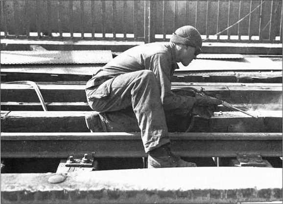 A welder from the 1058th Bridge Construction and Repair Group repairs the Ludendorff Bridge after it was captured on 7 March 1945.